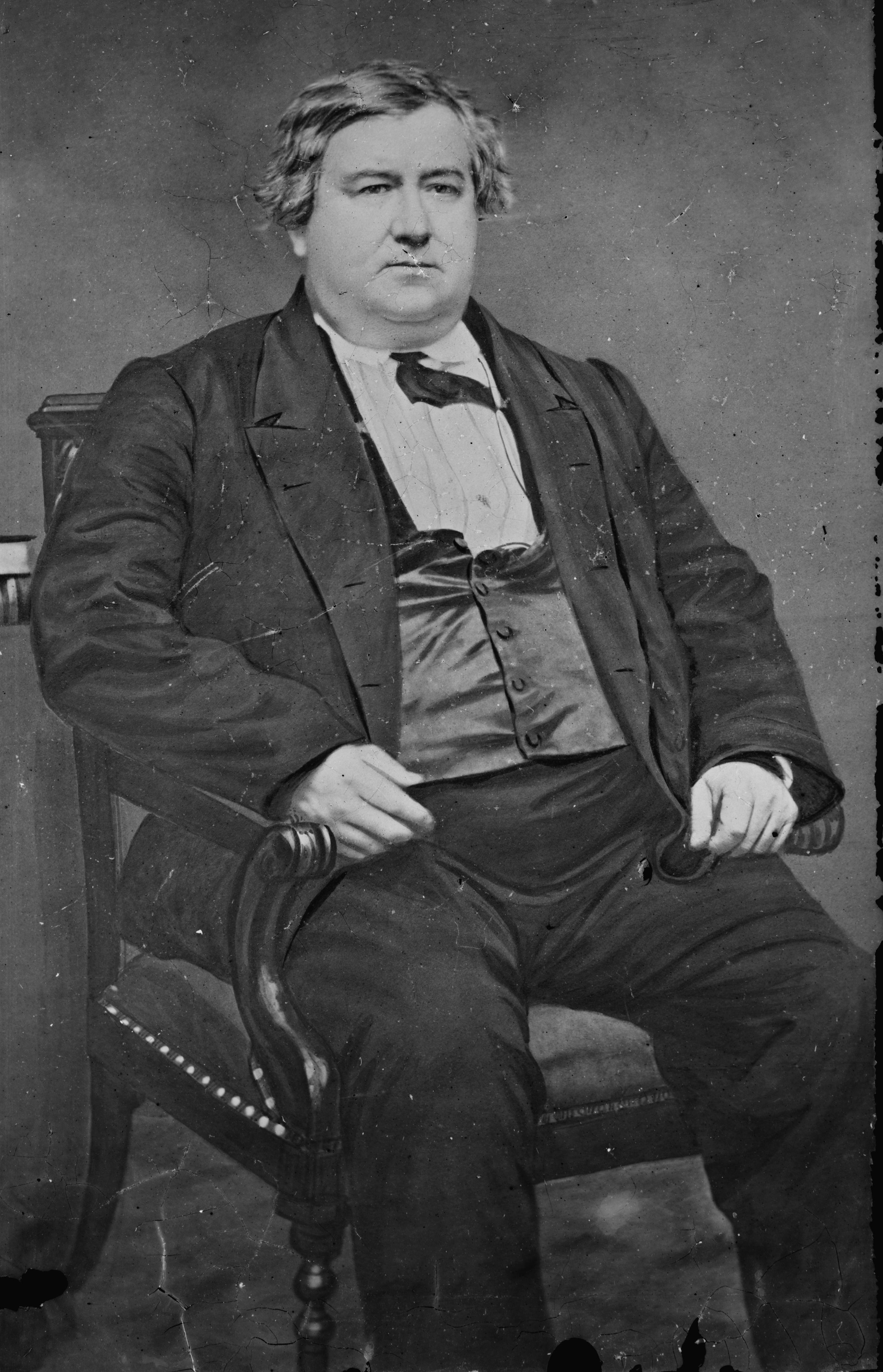 Preston King. Library of Congress description: "Hon. Preston King of N.Y."